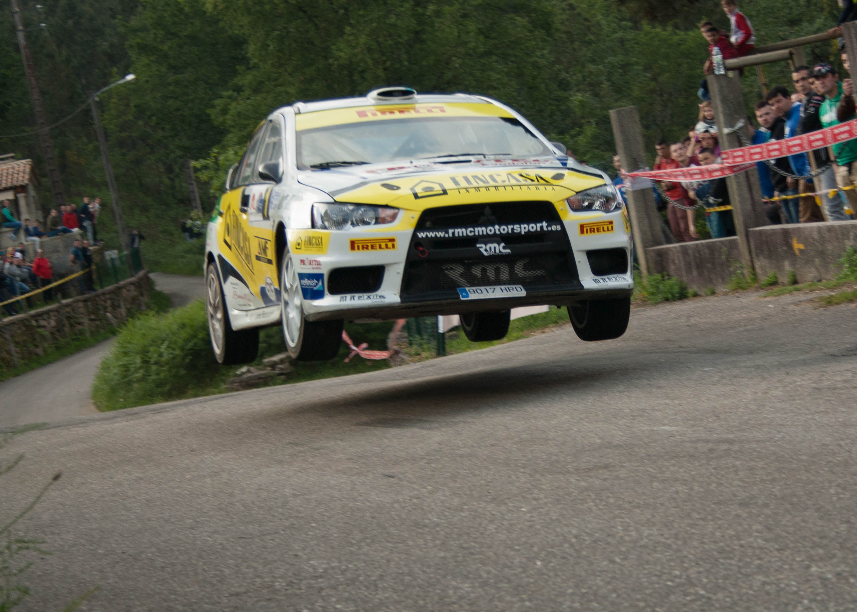 II Rally Eurocidade